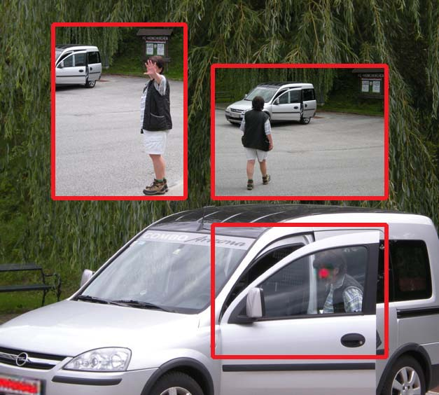 See filename. The depicted and imo not-identifiable person is, of course, a friend of the photographer, _&_ a little "less-than-VIP". She is indeed not very keen on being photographed, nevertheless. OTRS-requests might be successful, however. If unsuccessful: JUST delete.